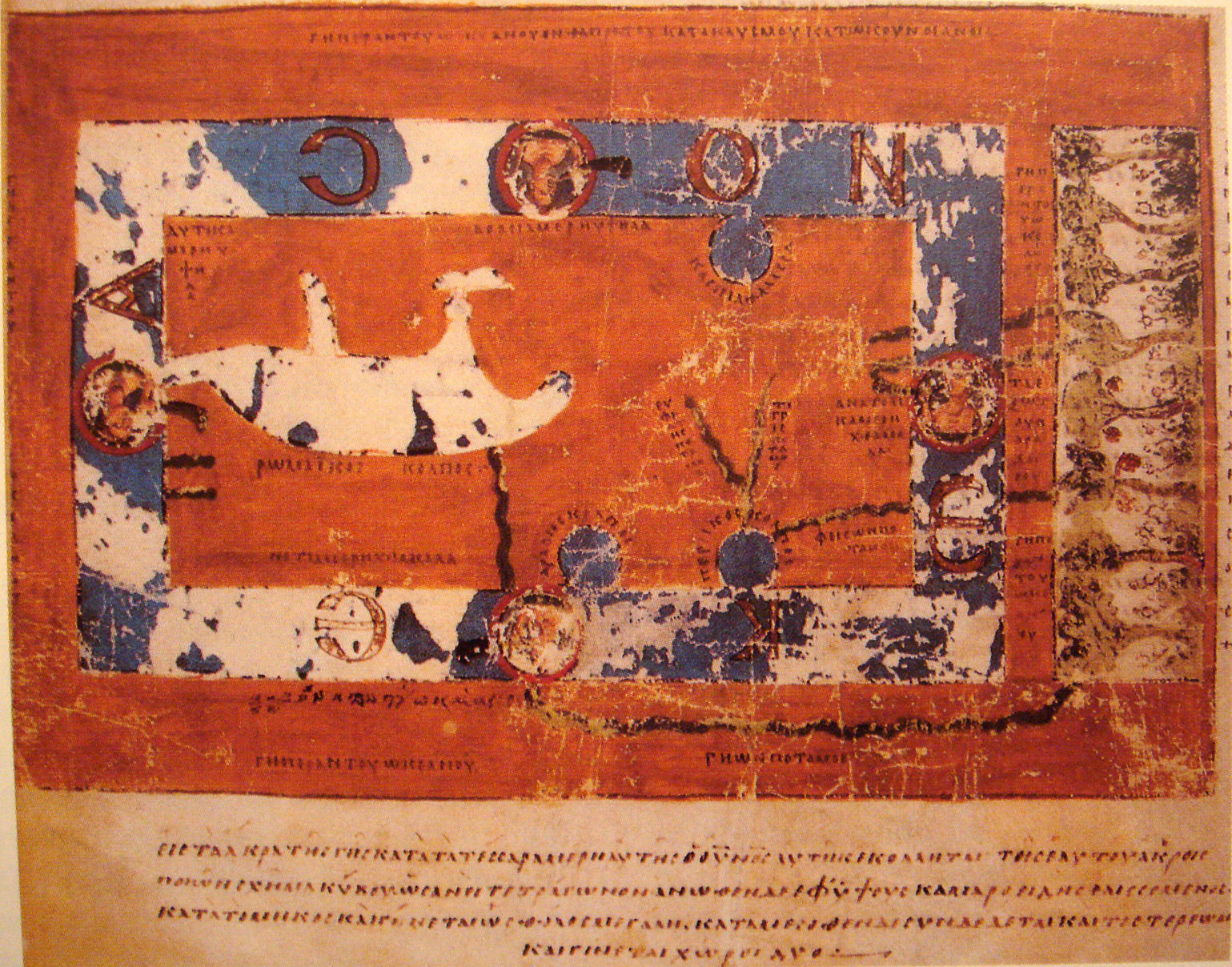 World Map by Cosmas Indicopleustes. The map is oriented with north to the top. It shows a rectangular landmass in the middle of the World Ocean (ꙌΚΕΑΝΟϹ, Okeanos), reflecting what Cosmas thought was the "floor" of the tabernacle-shaped universe. The Roman Gulf (i.e., Mediterranean) is shown in the western half, with indentations for the unmarked Adriatic and Aegean/Black seas. Three further gulfs are shown: the Caspian to the northeast and the Arabian (i.e., Red Sea) and Persian gulfs to the south. Paradise is shown in the far east, beyond the Ocean. Four rivers run from it and cross under or through the Ocean to reach Asia and Africa.